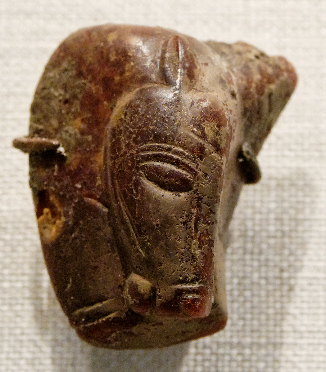 Pendant with the head of a horse, Italic work.